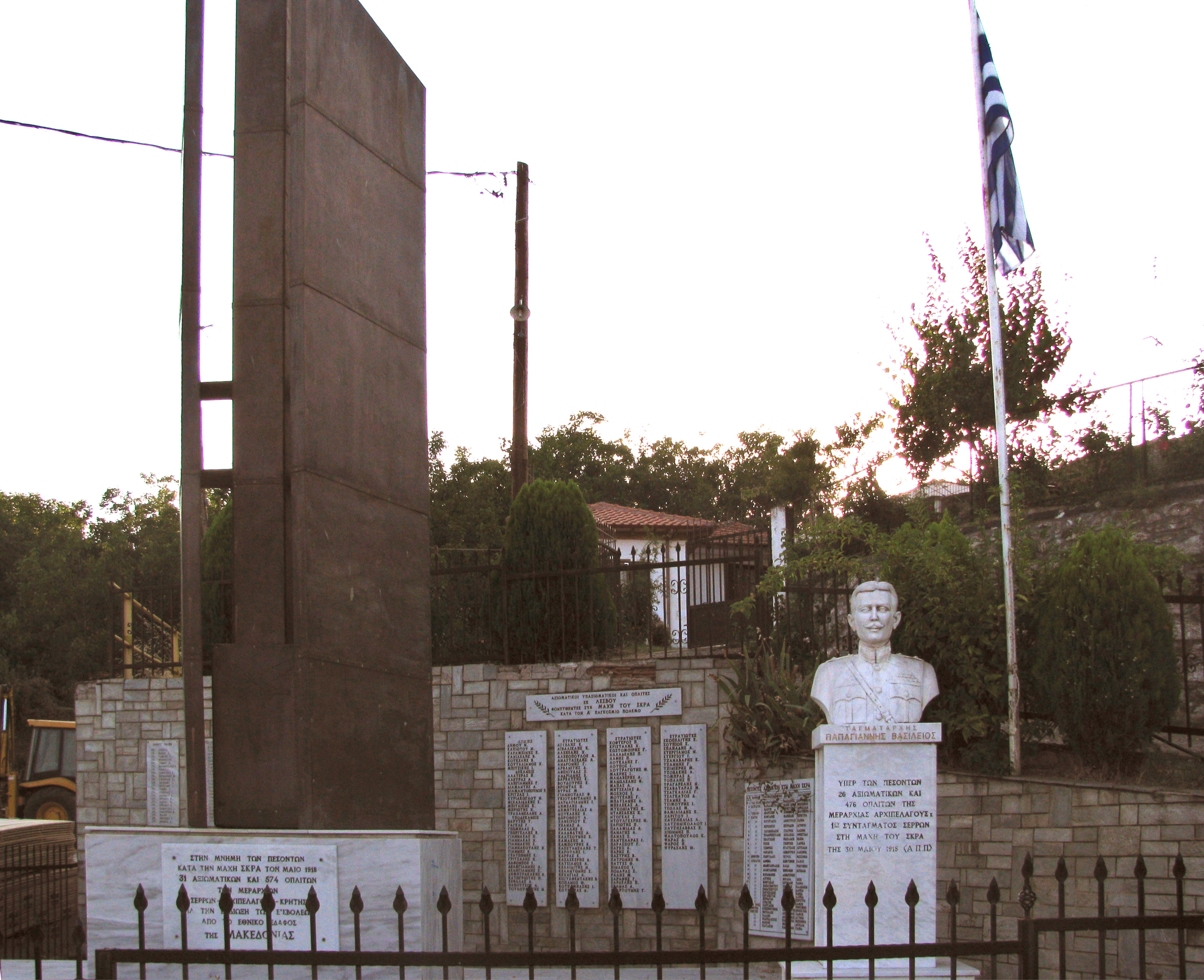 Village of Lyumnitsa or Skra, Greece